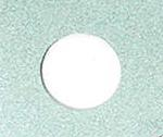 Alka-Seltzer Plus tablet